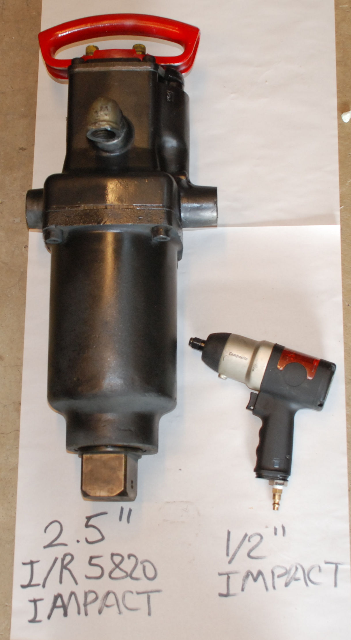 Picture of a very large Ingersoll Rand 5820 Impact Wrench vs. a regular 1/2" impact wrench.